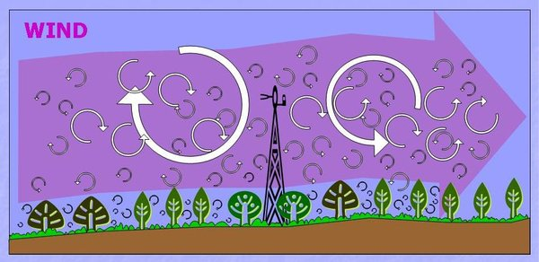 Representation of eddies passing a measuremnet tower. Power Point diagram created by George Burba.